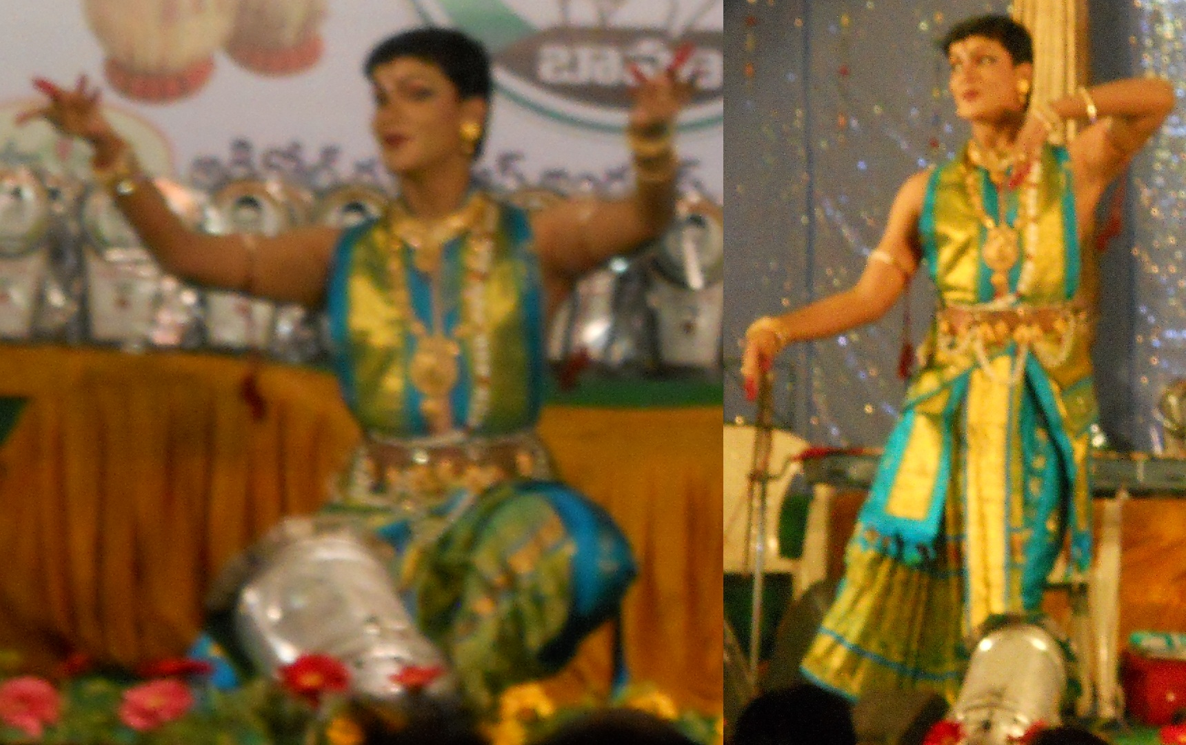 Classical dance by Adarsh in India. నృత్యభూషణ్, కళాసాధనా పురస్కార్, జువెల్ ఆఫ్ ఇండియా అవార్డుల గ్రహీత.